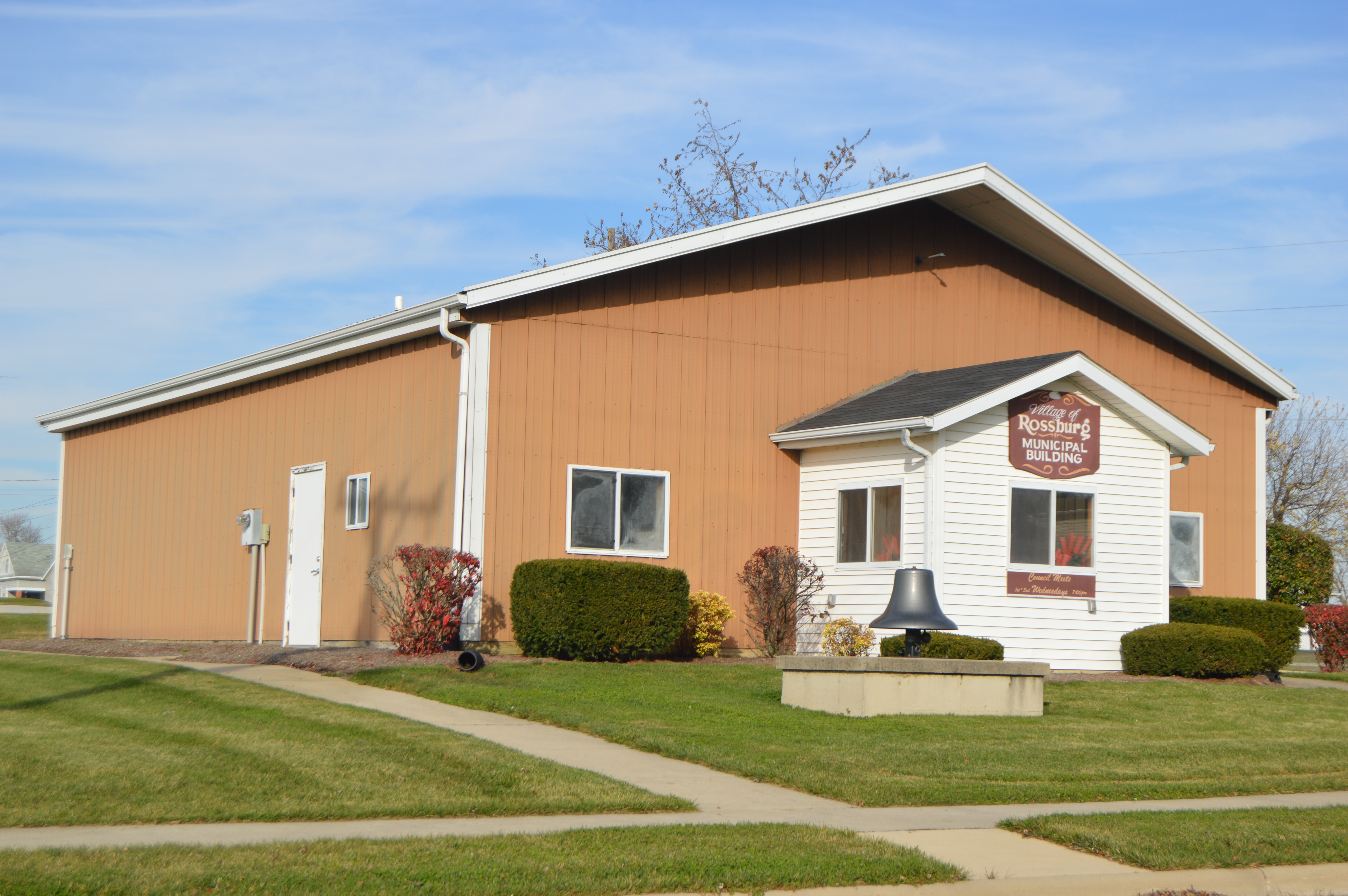 Front and western side of the municipal building in Rossburg, Ohio, United States, located at 200 W. Main Street.